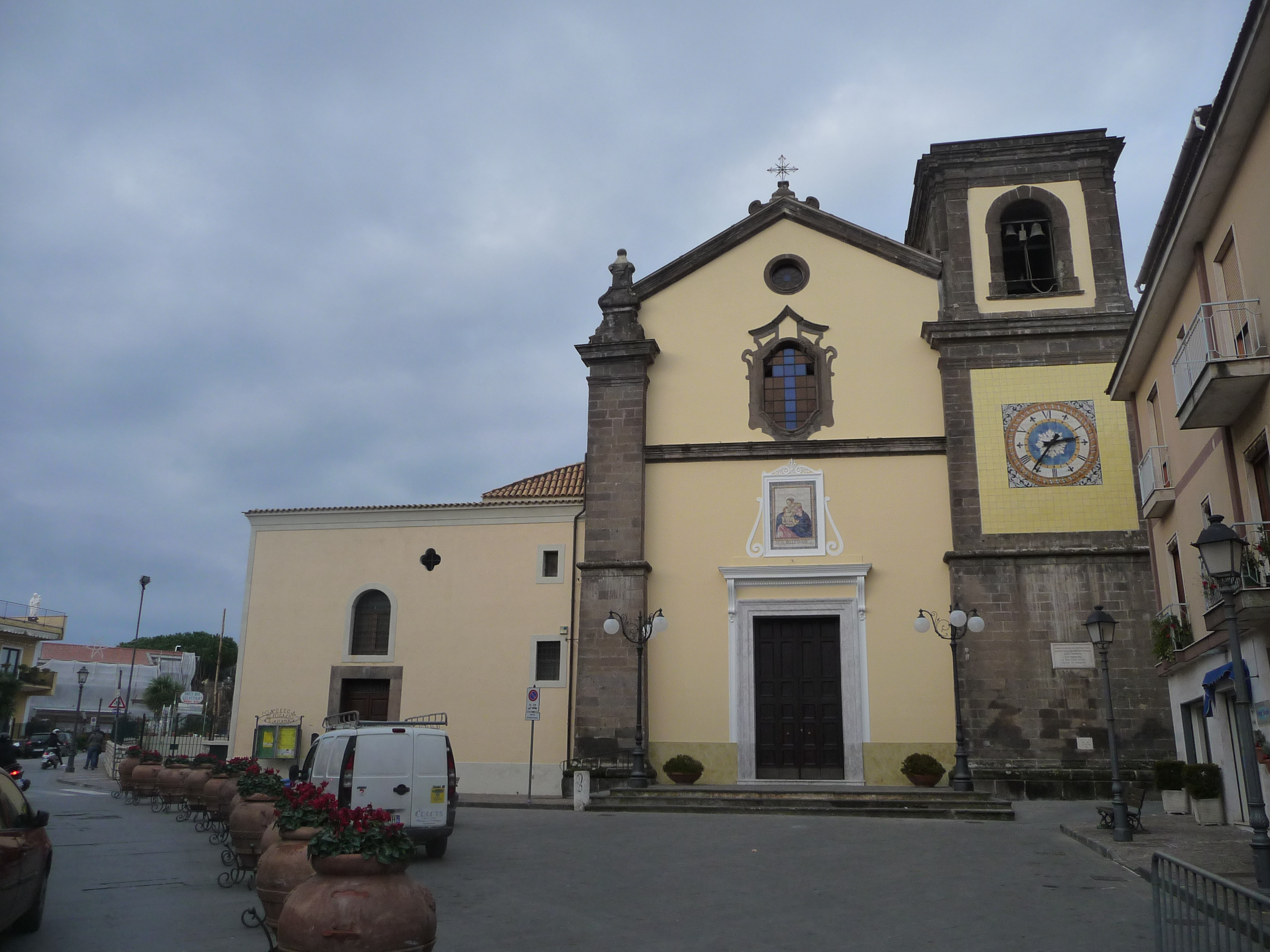 Sant'Agata sui Due Golfi, village in municipality of Massa Lubrense: the Parish Church of Santa Maria delle Grazie (Saint Mary (or Our Lady) of Graces).